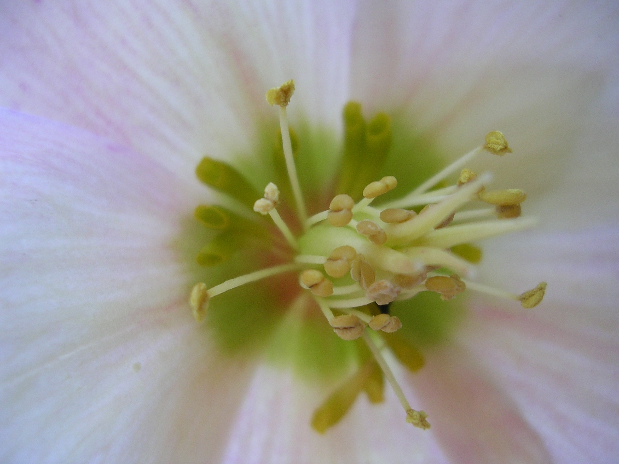 Macro foto of Helleborus niger flower in Višnja Gora